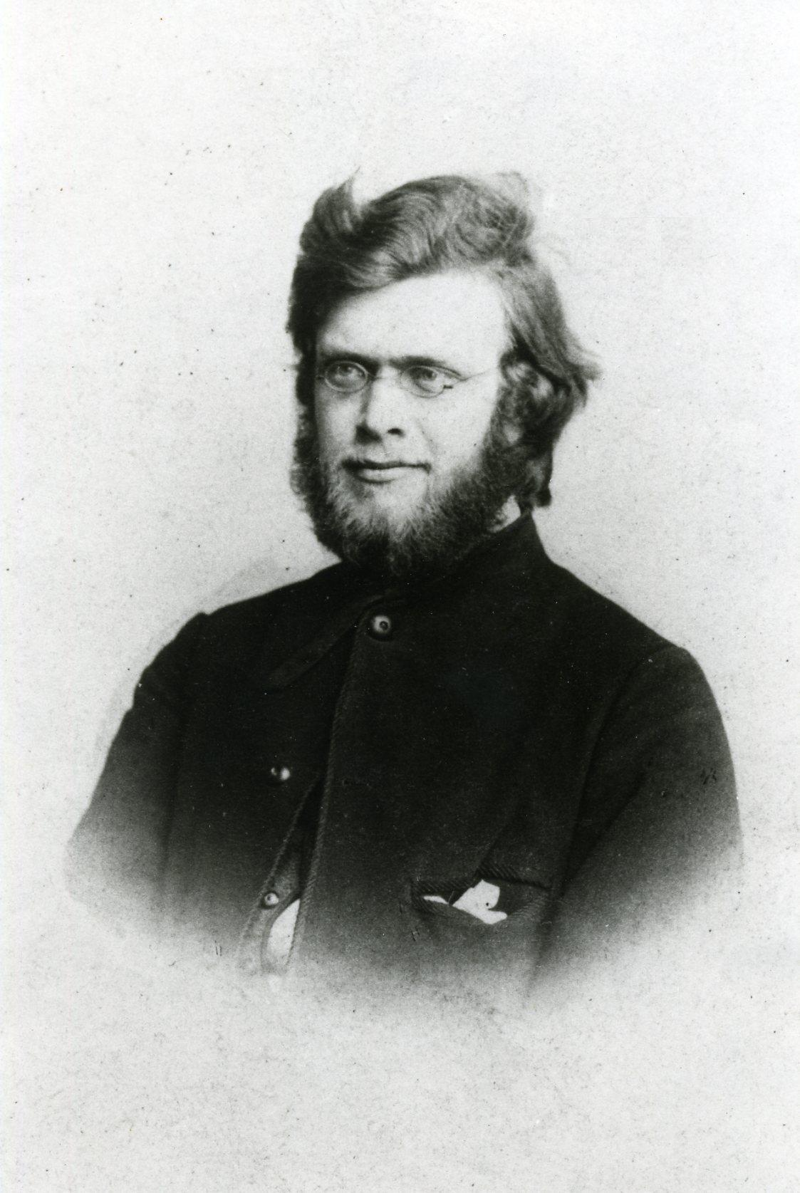 Gerhard August Schneider (1842-1873). Photo: Christian Olsen (1813-1898). Firma: Chr. Olsen & P. Marie Thomsen (d. after 1889)